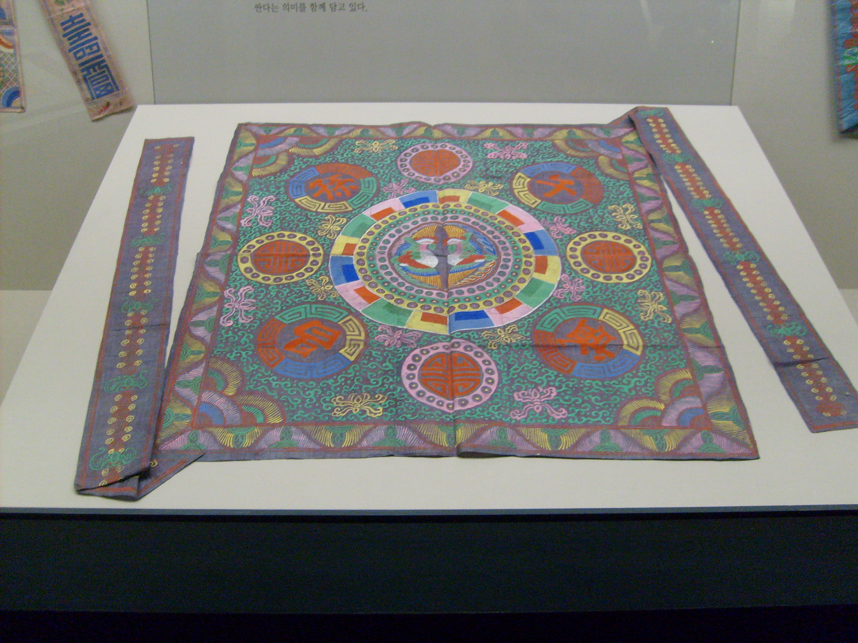 Bojagi for queen during Joseon dynasty.